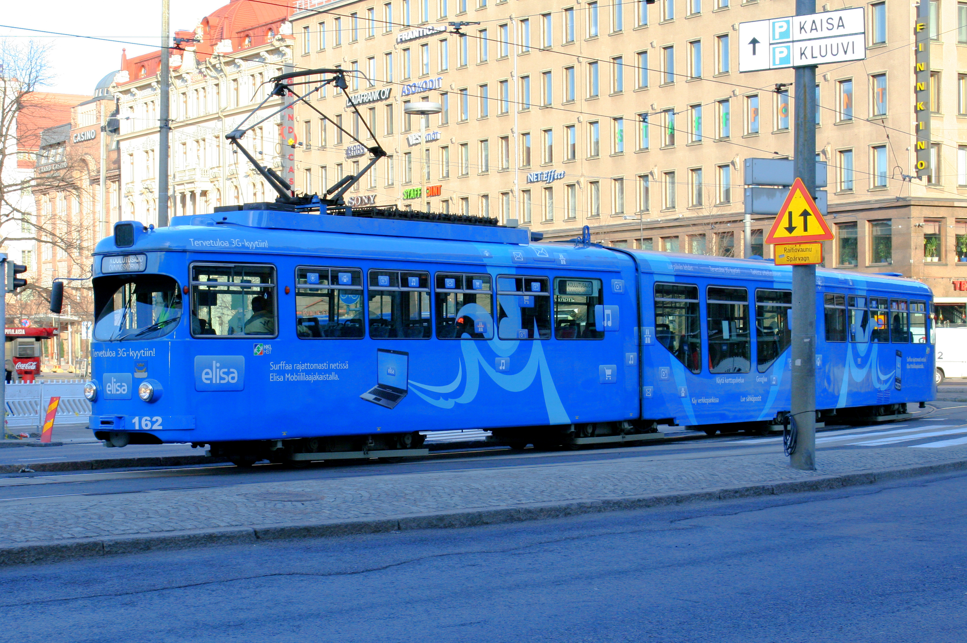 Helsinki City Transport tram number 162, type Düwag GT8N, in training drive on Kaivokatu by Rautatientori, painted in advertisement livery for the Finnish teleoperator Elisa. The tram was built in 1964 for use in Mannheim, Germany as a GT6-type tram. A low-floor middle section was added in 1991. The tram was withdrawn from use in Mannheim in 2006, and purchased to Helsinki in 2008 to cover for the tram shortage caused by persistent problem with the newer Variotrams.